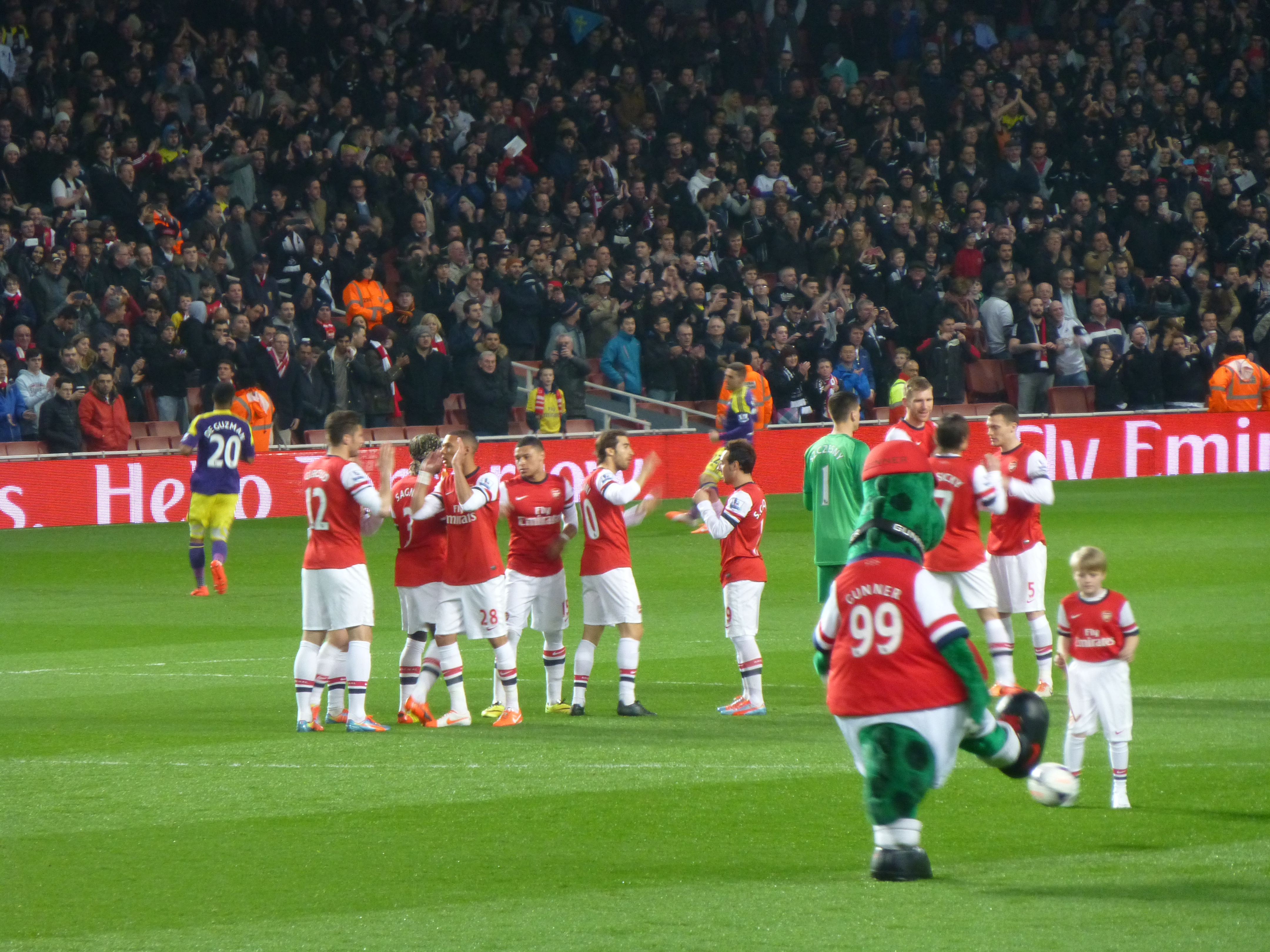 Arsenal players gearing up for a Premier League match against Swansea City on 25 March 2014.